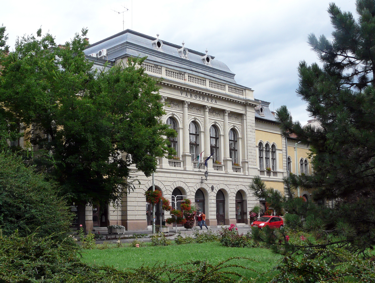 City Hall, Cegléd (Hungary)